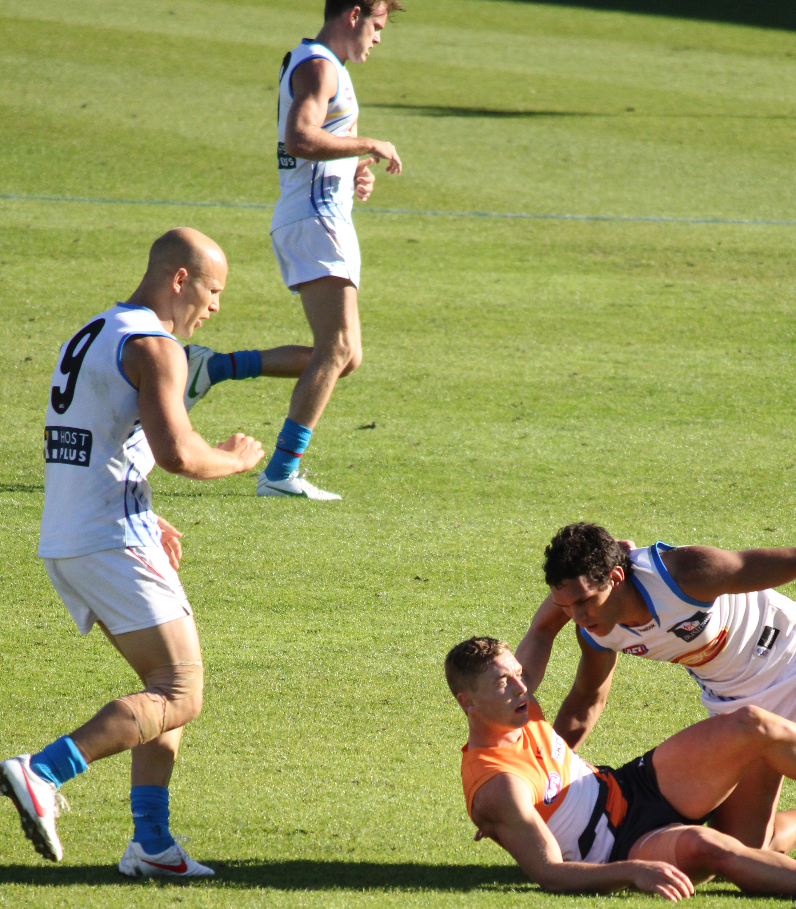 2012 Round 7. GWS Giants vs Gold Coast Suns. Manuka Oval.